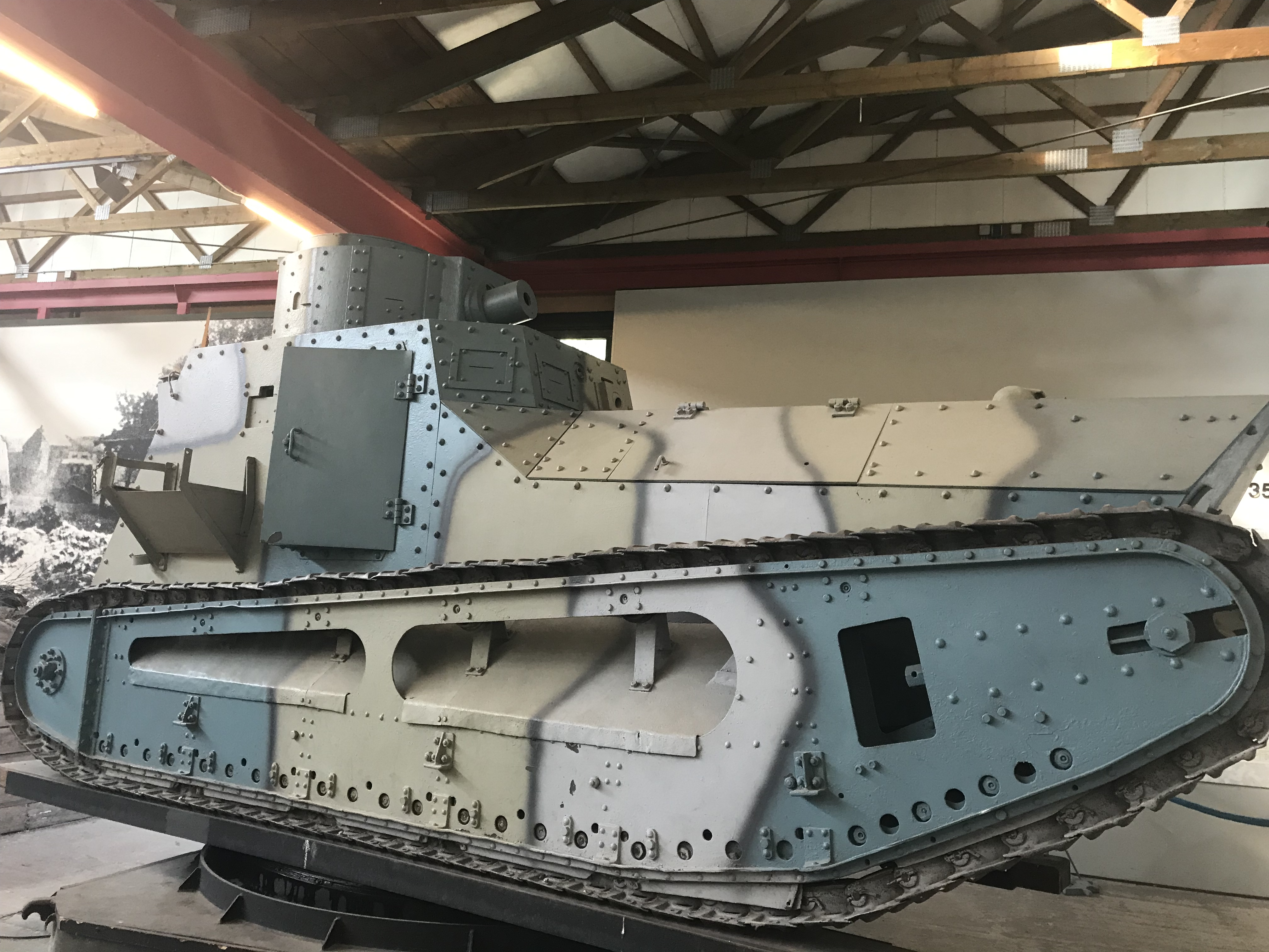 This tank was developed and produced by the German Empire during the First World War as a light tank prototype. 2 were known to have been produced by the German Empire, and Sweden then produced 10 more during the interwar period as the improved m/21-29